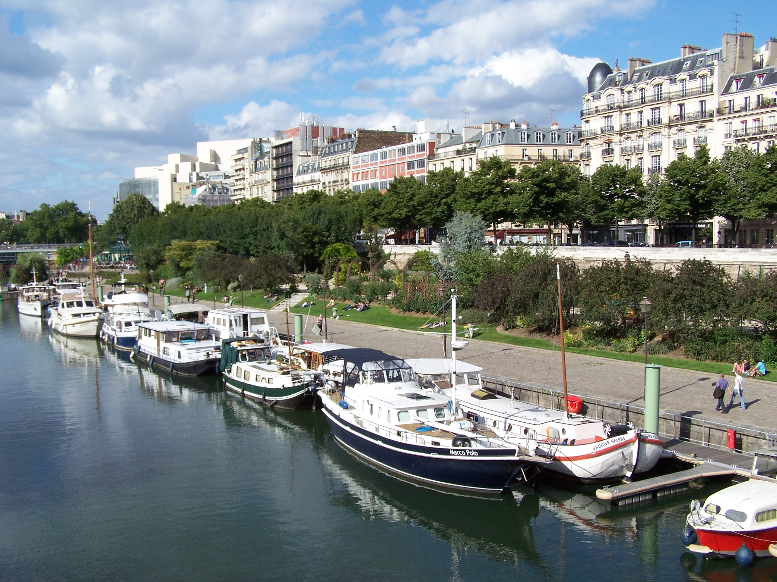 View of the port de l'Arsenal in Paris, along the Seine river